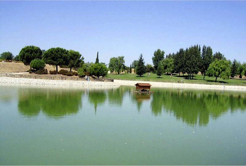 Lake and park of Sector III, Getafe, (Madrid), Spain Author: Miguel303xm Date: June 25th, 2005 Place: Lake and park of Sector III, Getafe, Madrid, Spain